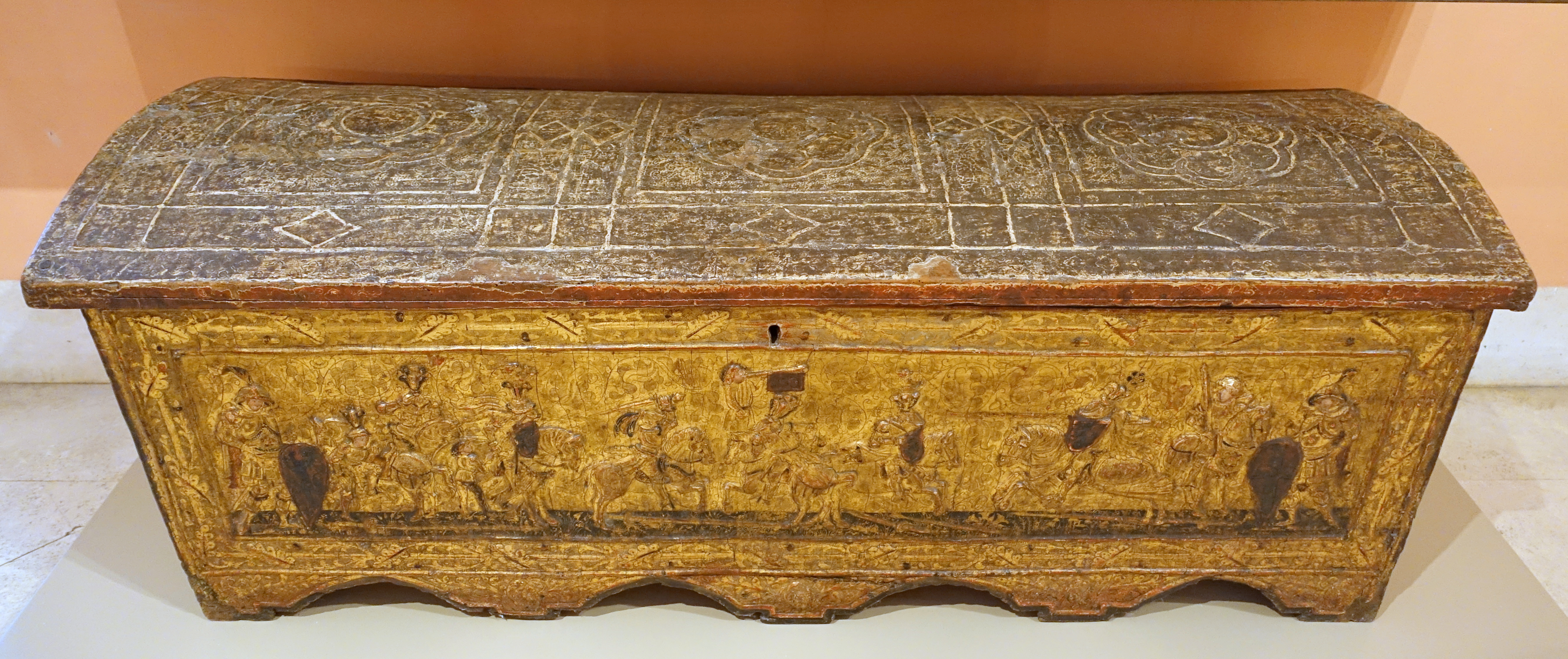 Cassone in the Museo Nacional Centro de Arte Reina Sofía, Madrid, Spain. This work is in the public domain because the artist died more than 70 years ago.